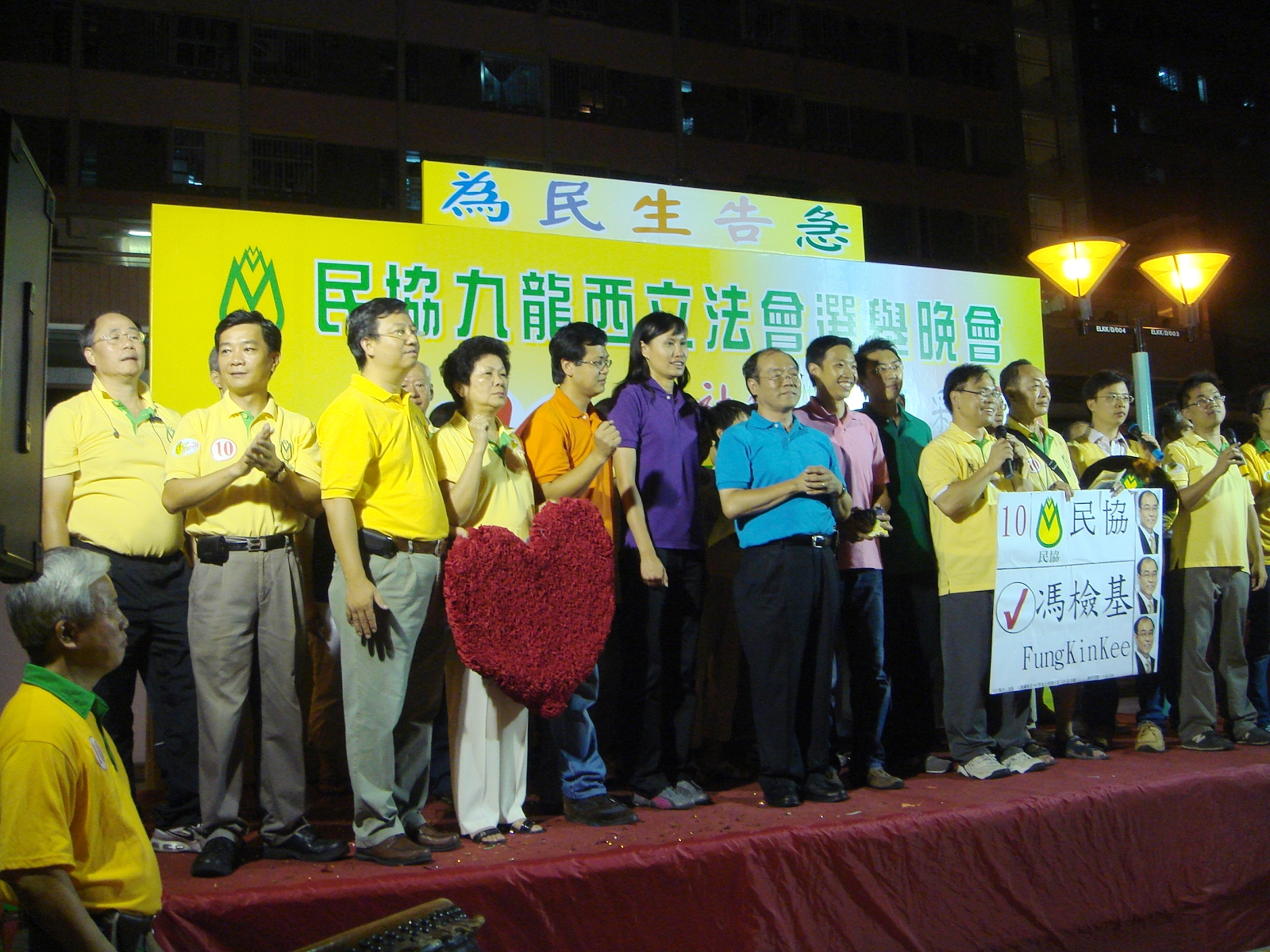 Hong Kong ADPL Legislative Election Campaign 2008